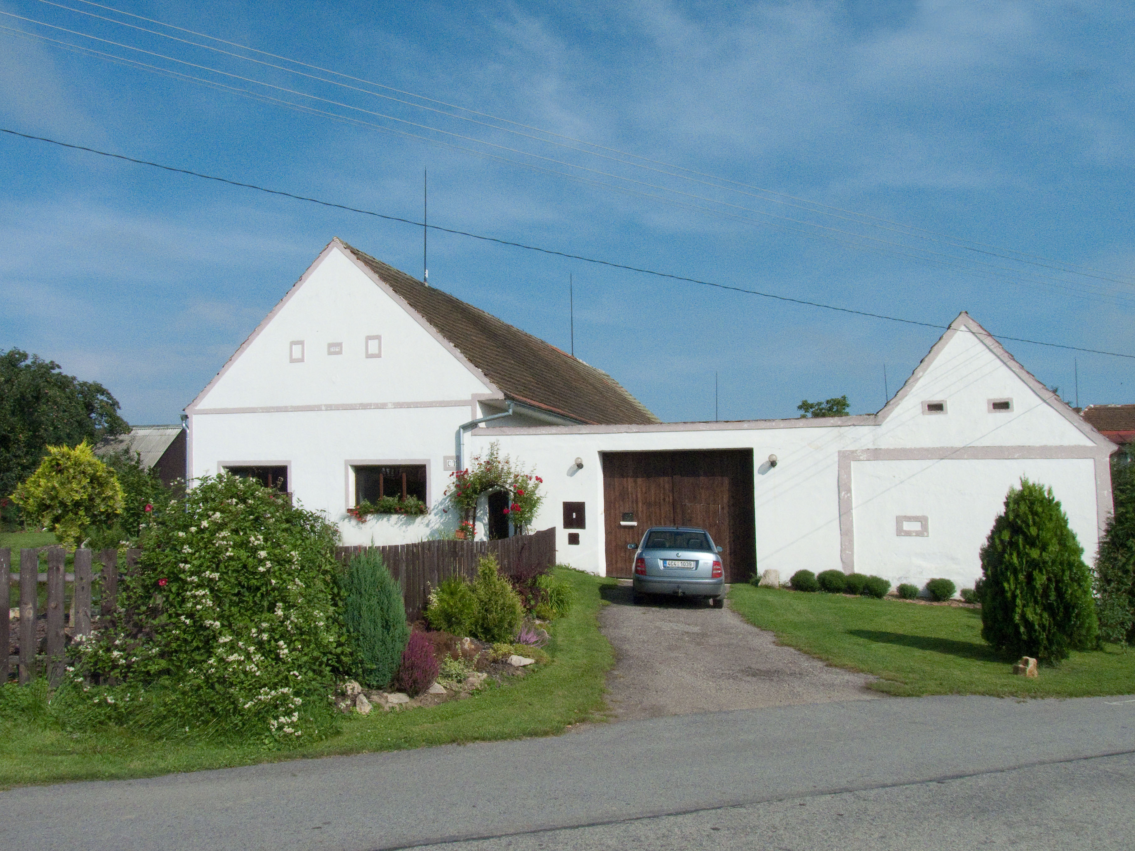 Cottage No 21 in Křenovice, České Budějovice district, Czech Republic